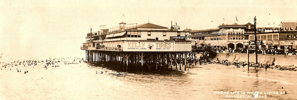 Murdoch's Pier near 23rd Street and Seawall Blvd in Galveston, Texas. The cancellation of the postage stamp on the reverse indicates the photo was taken sometime before 1919.